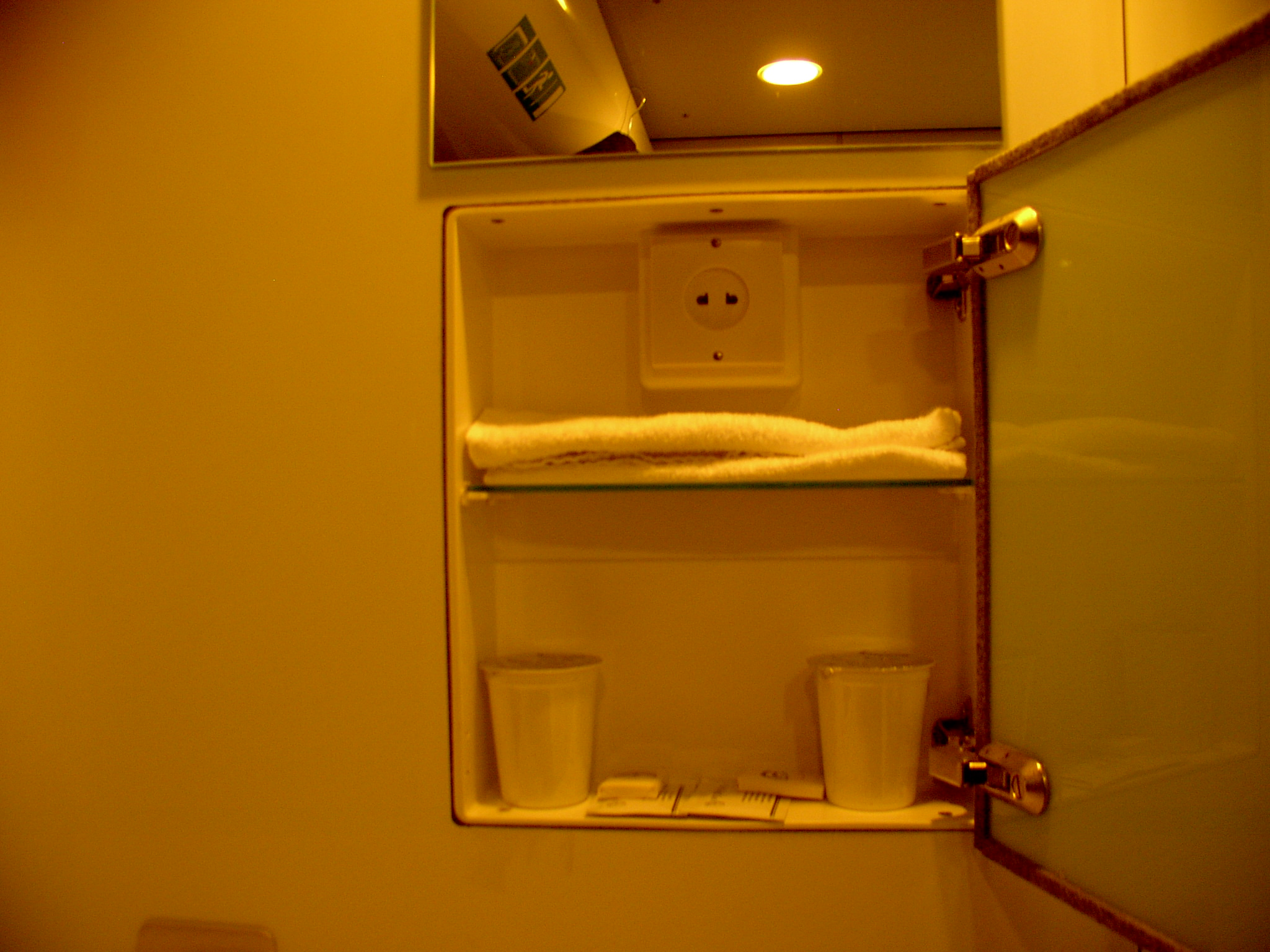 mirror cabinet in an economy sleeping car of CityNightLine